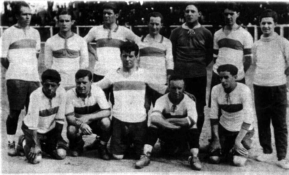 The Gimnasia y Esgrima La Plata subchampion team of 1924.